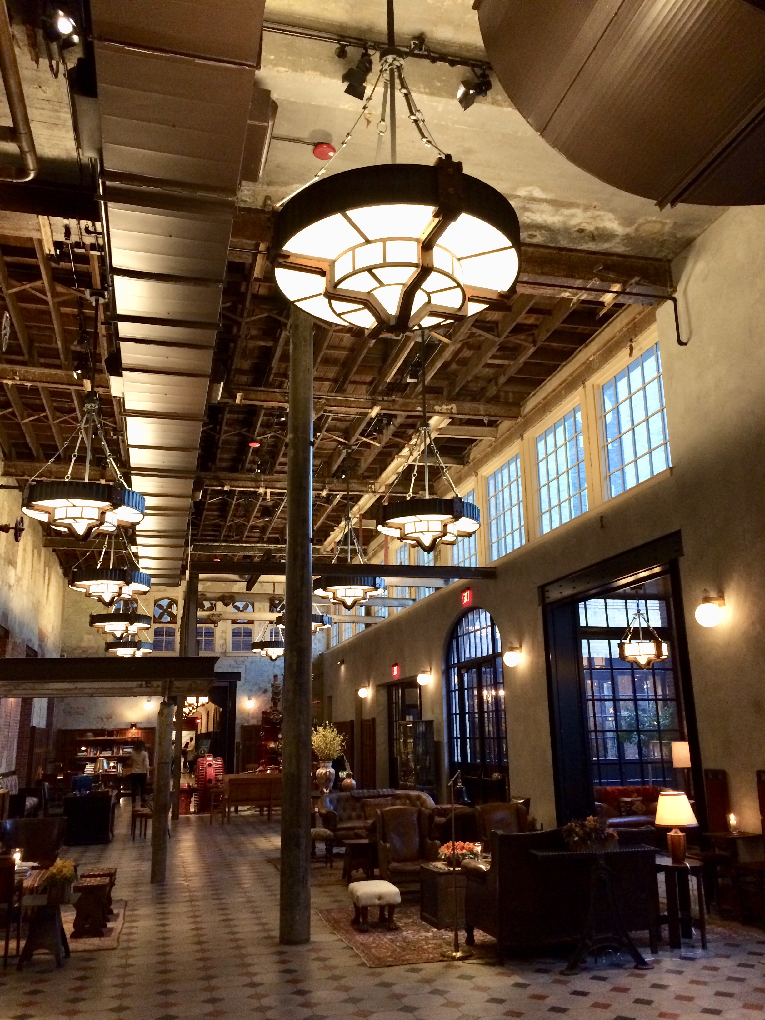 Interior view of Hotel Emma lobby